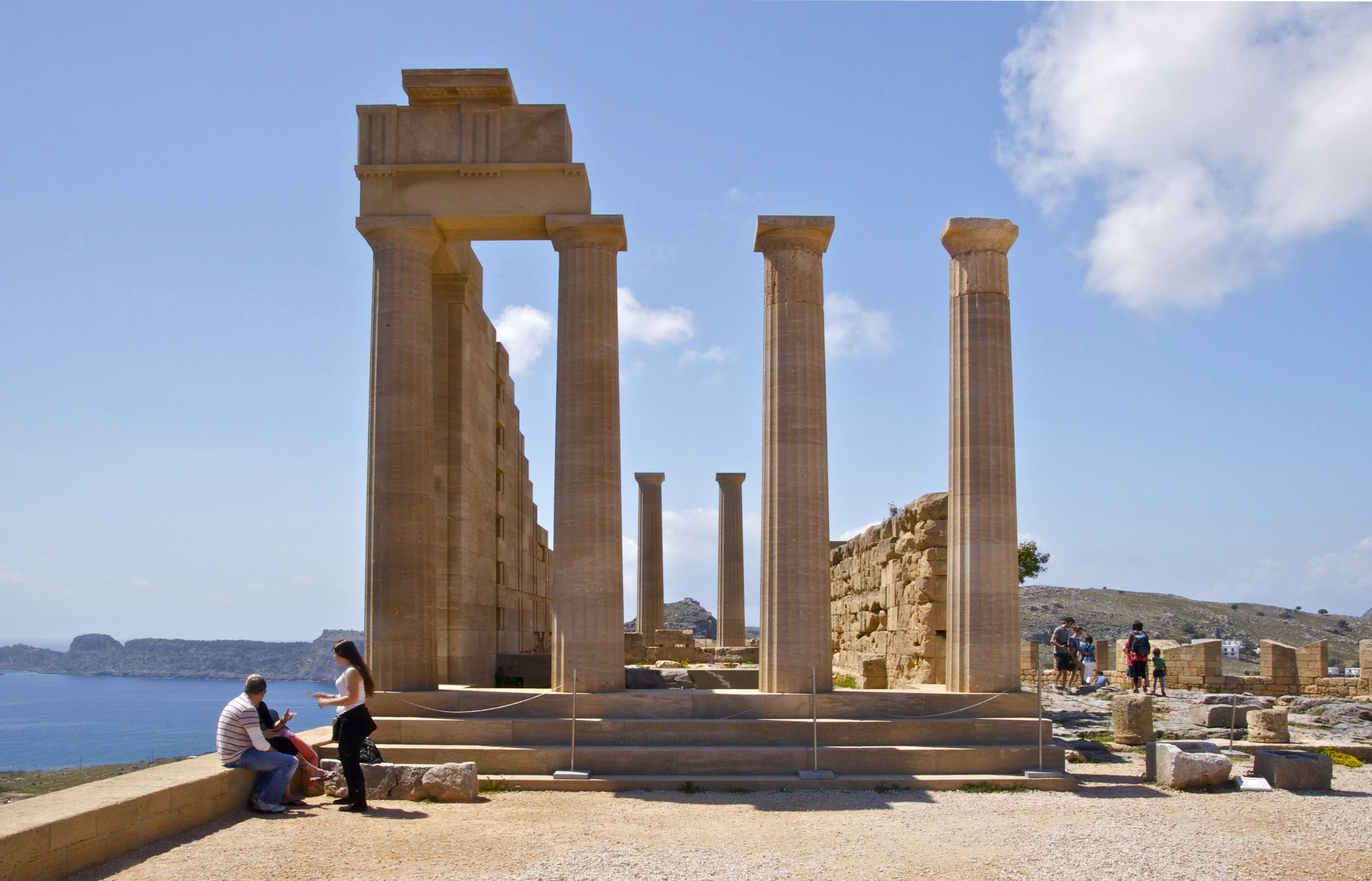 On the Acropolis of Lindos, Island of Rhodes, Greece, the temple of Athena Lindia.